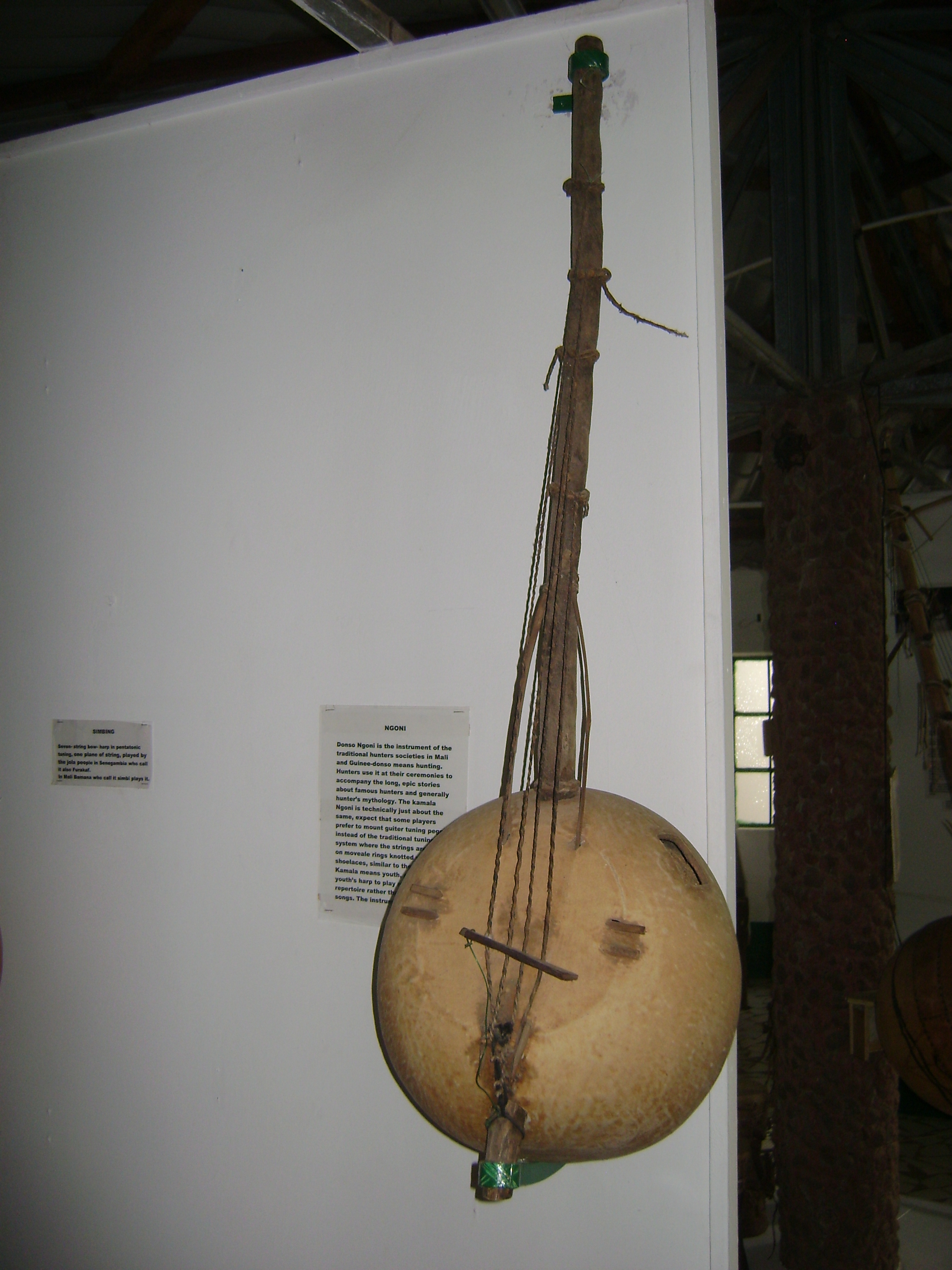 A ngoni in Bakau Crocodile Museum, The Gambia.